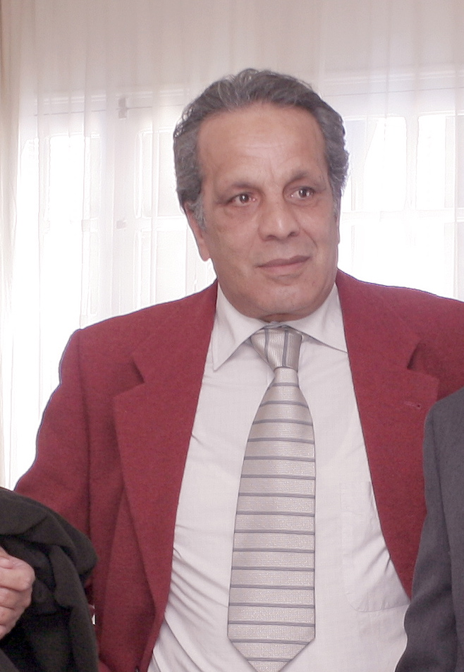 L'acteur Lotfi DZIRI lors d'une cérémonie de mariage